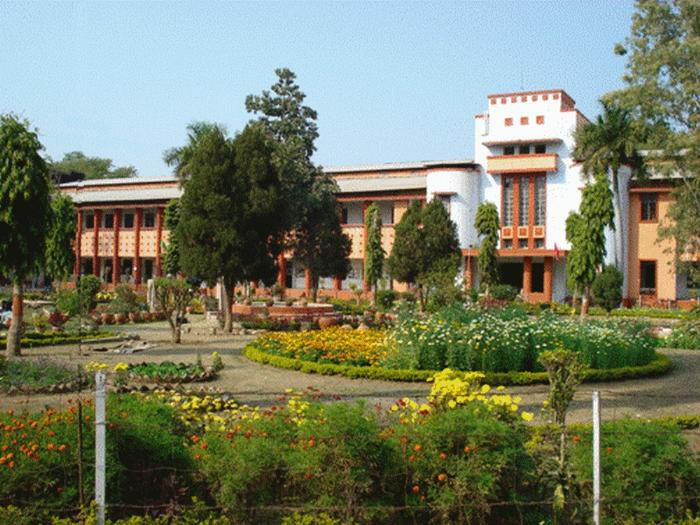 Administrator block - Jabalpur Engineering College, Jabalpur